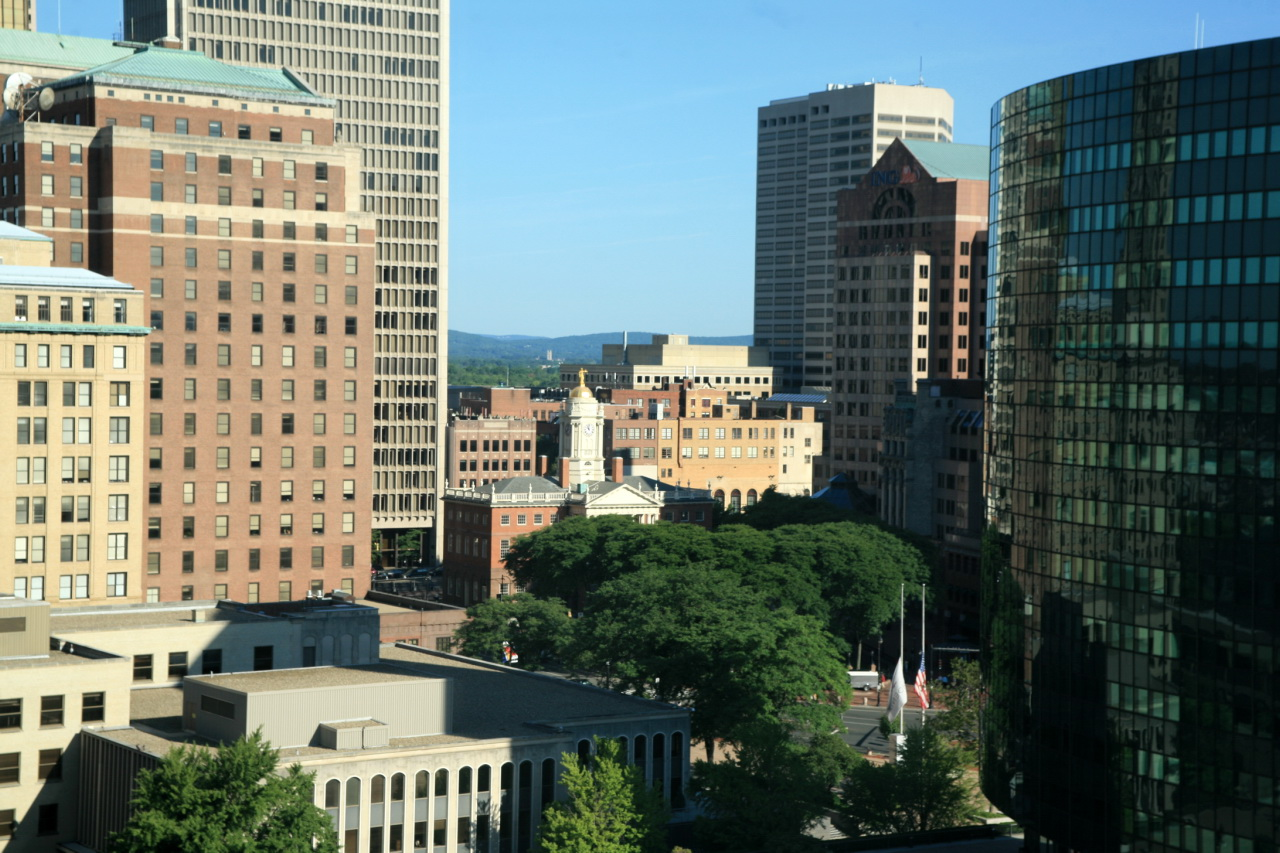 View of Downtown Hartford w/ Old State House at Center.